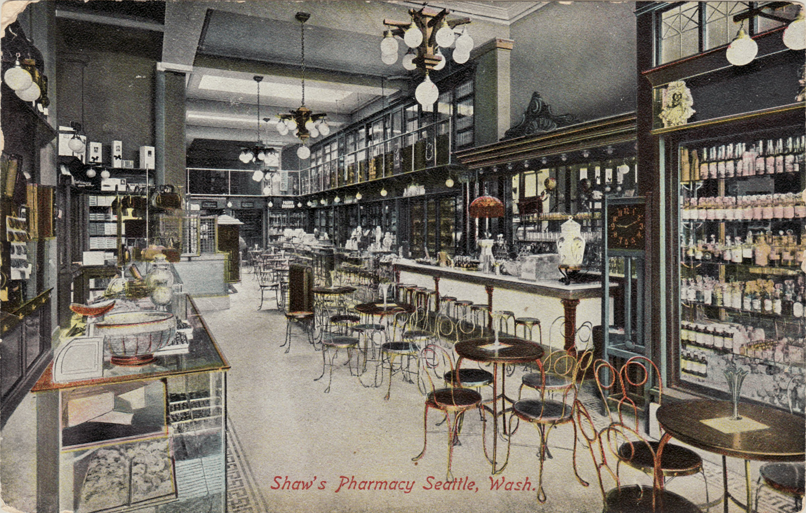 Interior of Shaw's Pharmacy, 918 Second Avenue, Seattle, Washington, c. 1907